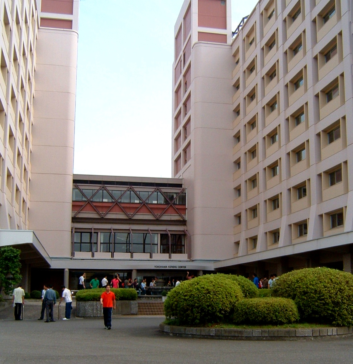 Yokohama Kenshu Center AOTS Hindu Hitachi Scholarship